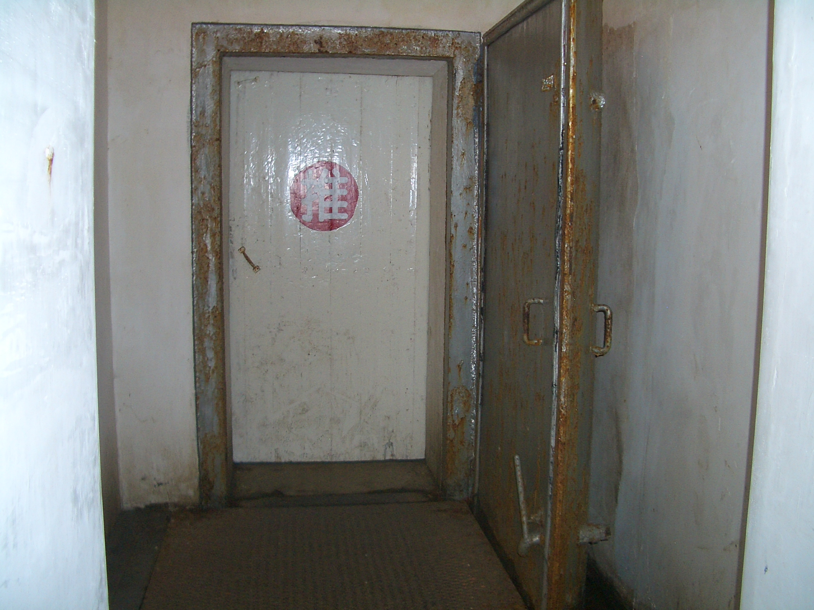 One of the doors near the entrance into the tunnel at Project 131.